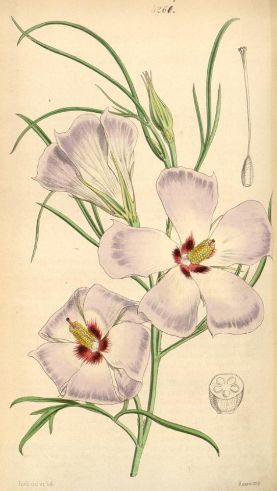 This is a scan of tab 4261, Fugosia hakeaefolia, the species now known as Alyogyne hakeifolia Text information which used to appear on the image: 4261